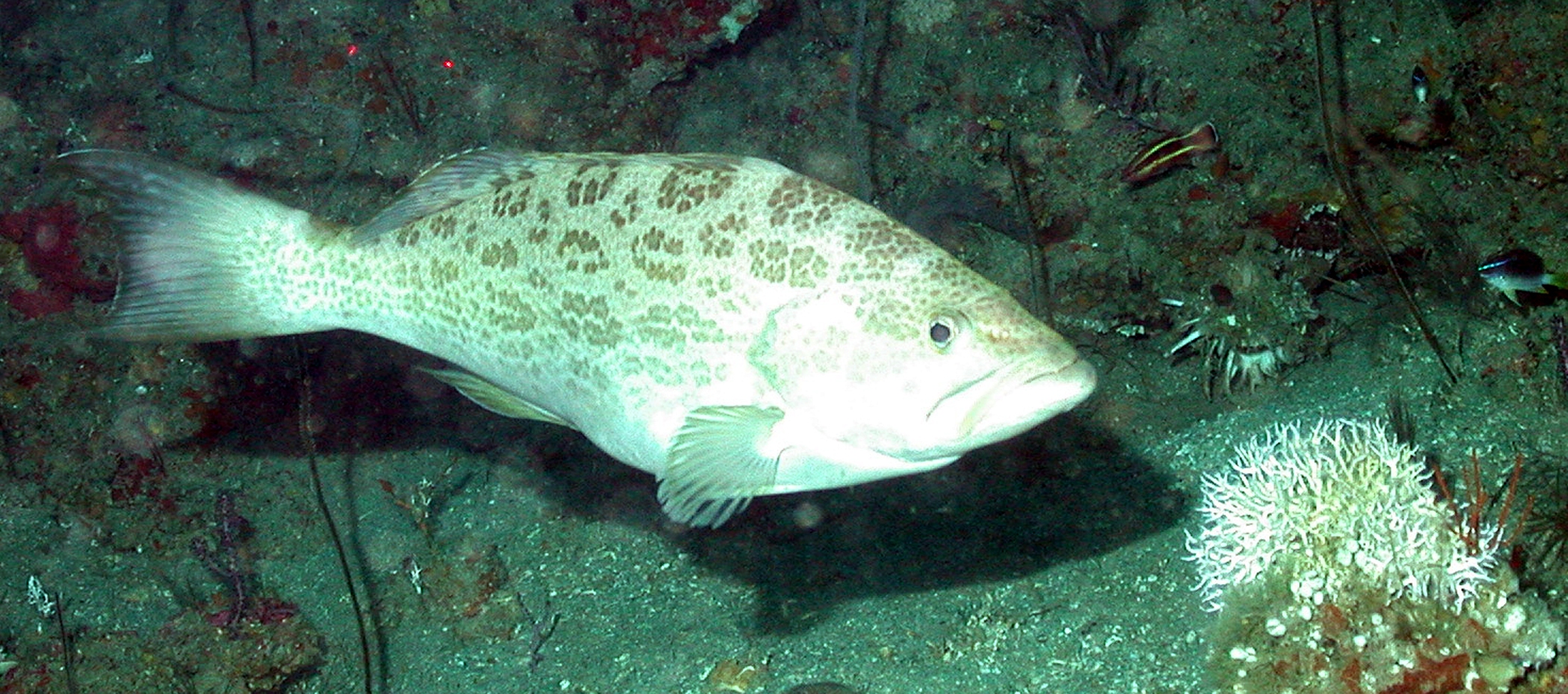 Scamp, Mycteroperca phenax. Atlantic Ocean, Southeast U.S. shelf/slope area.